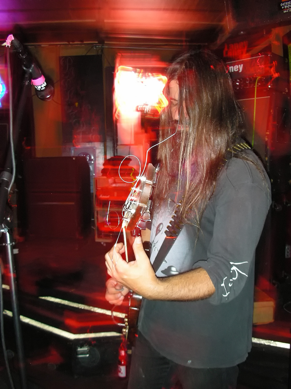 musician John Gossard (of Weakling, Asunder)